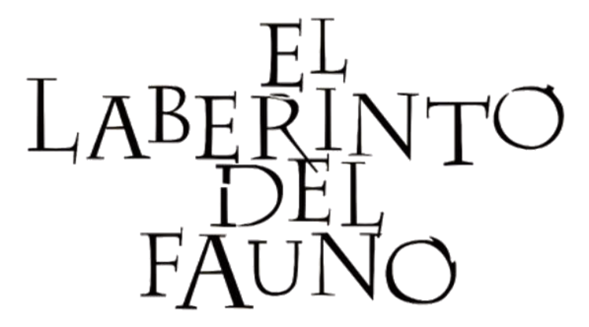 "Pan's Labyrinth" movie horizontal logo (black letters).